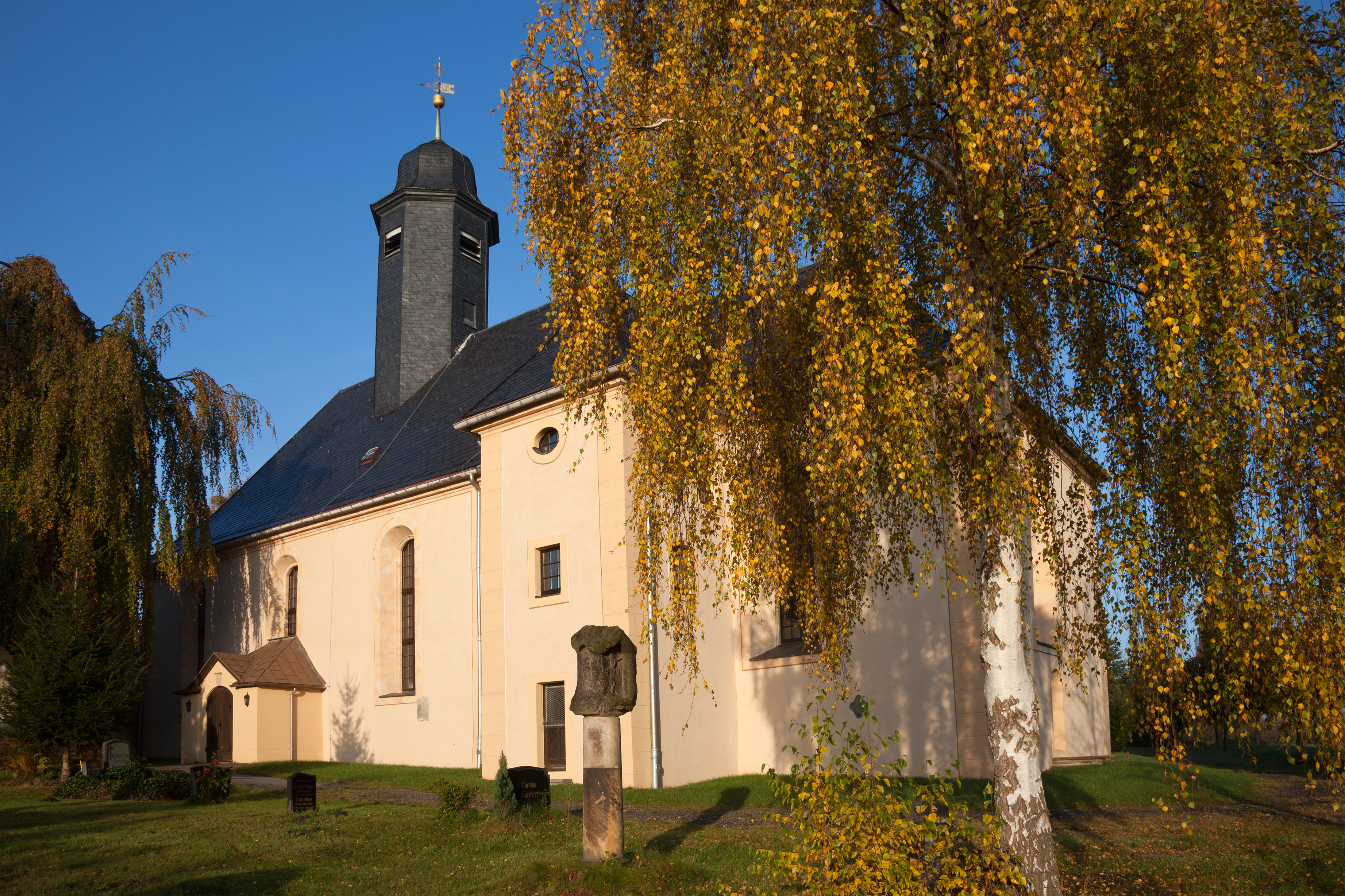 Tuttendorf, church "St. Anna"